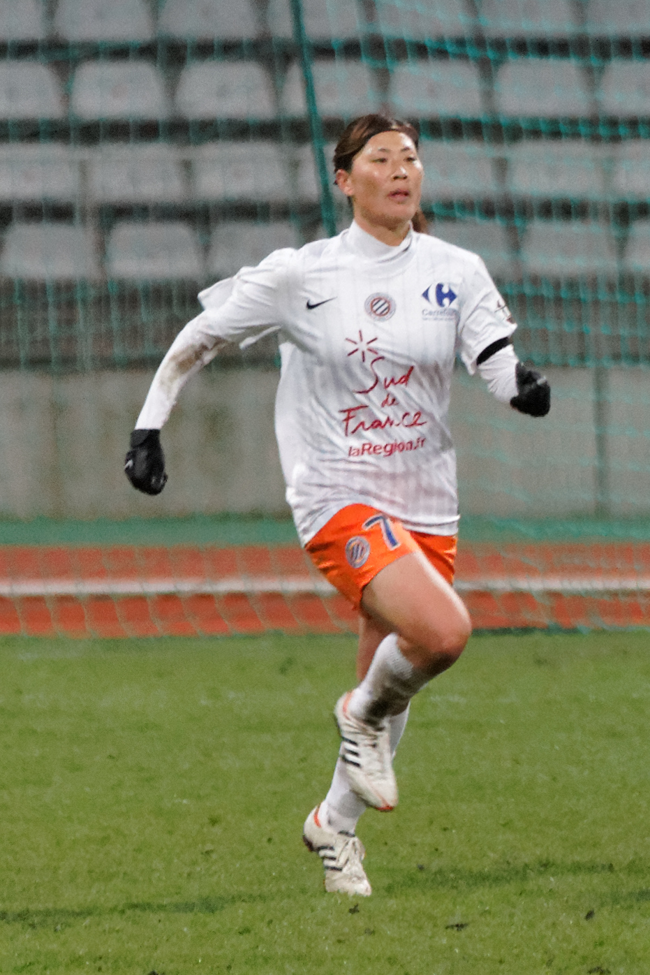 PSG-Montpellier, January 13th, 2013.